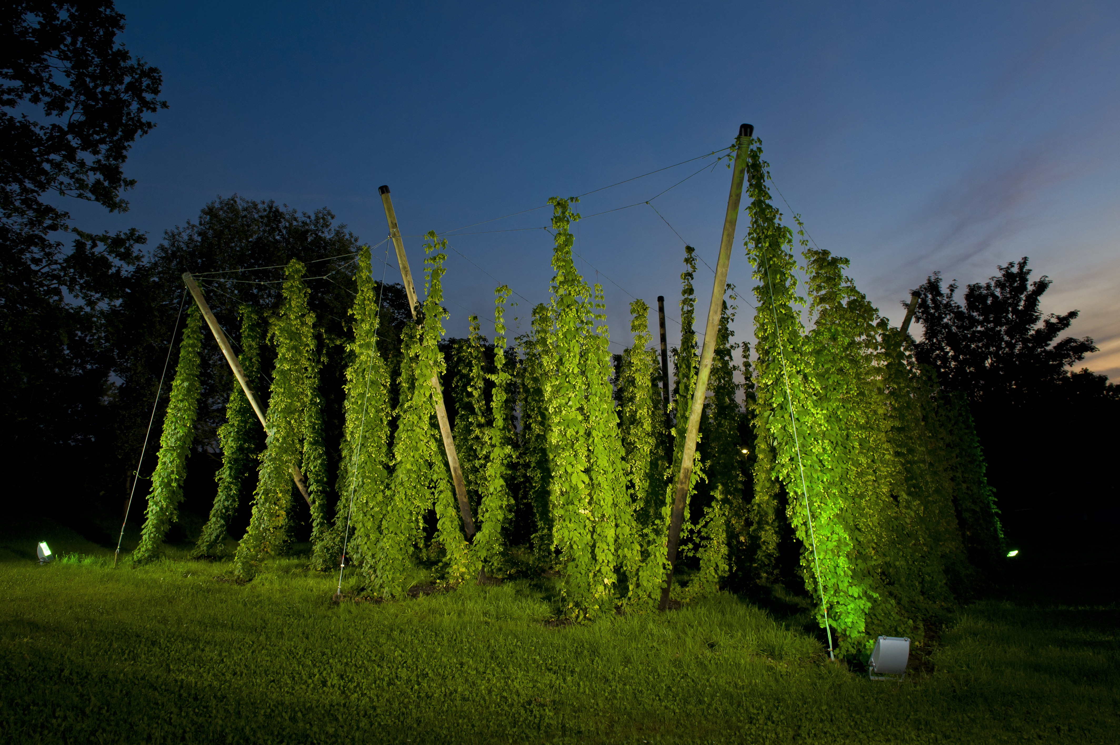 Hachenburger Hop-Garden at Night